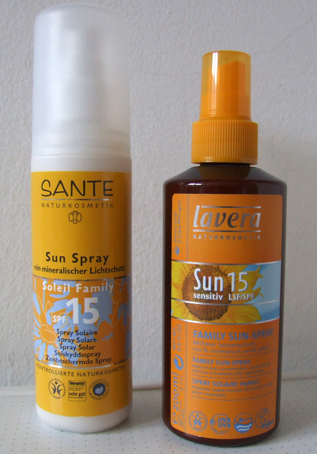 Sun Spray, Nature Cosmetic, Sun Spray from Germany